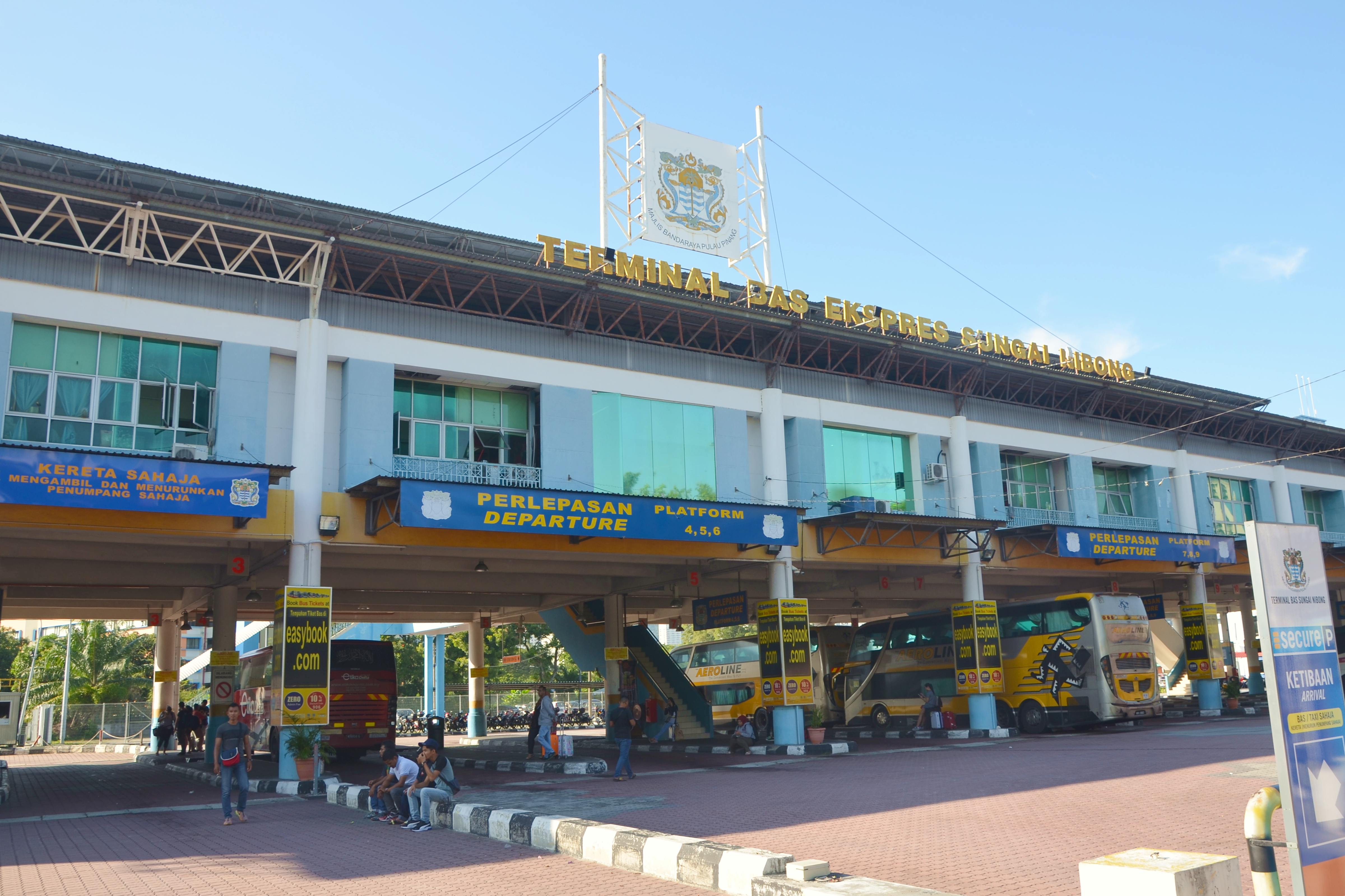 Sungai Nibong bus terminal, Penang viewed from Jalan Sultan Azlan Shah.